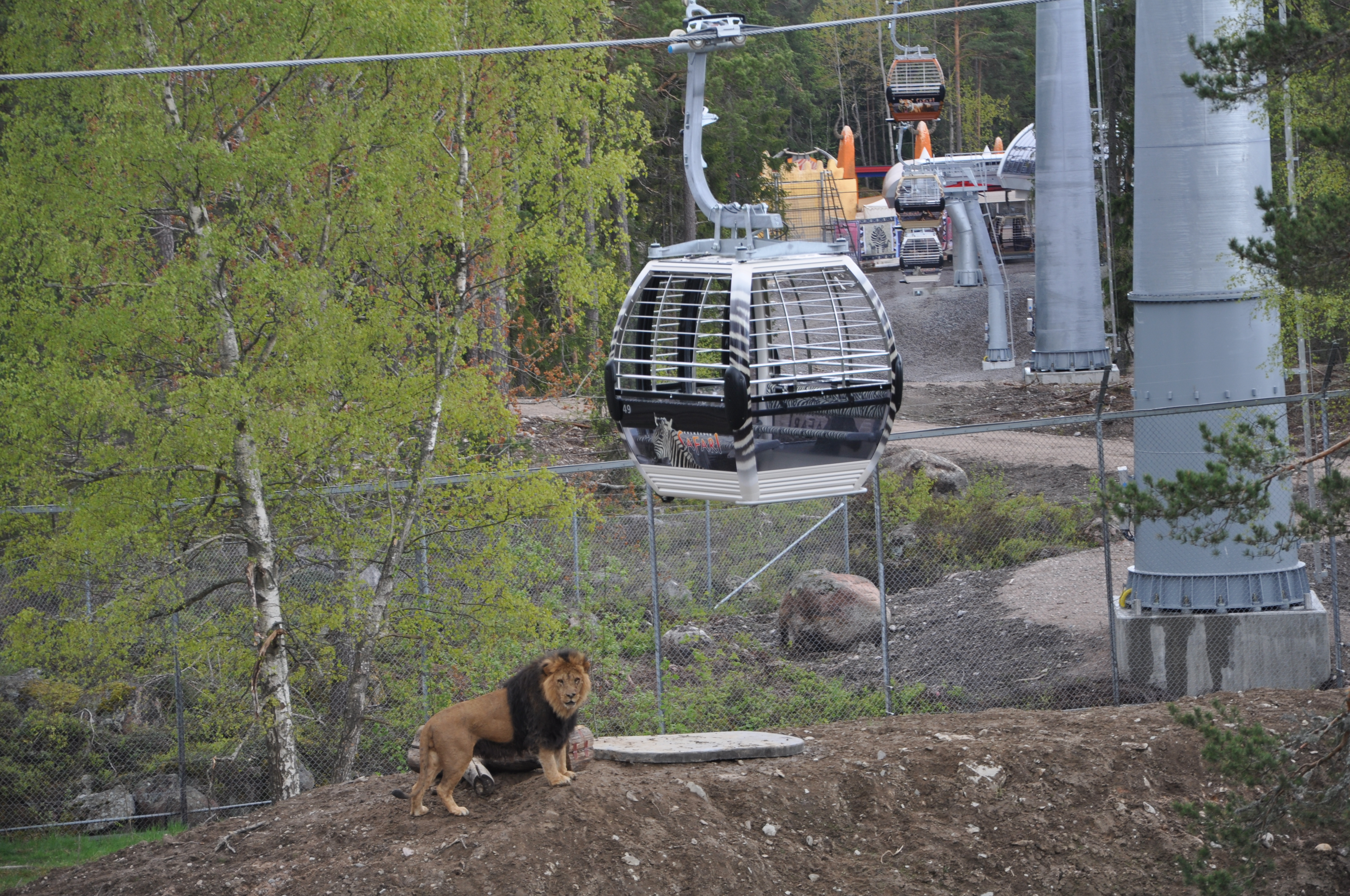 Safari gondola over Lion at Kolmården Wildlife Park